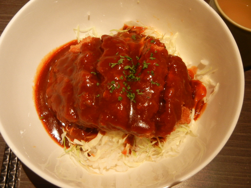 Domikatsudon_Okayama. 岡山市の名物「ドミカツ丼」, Okayama.